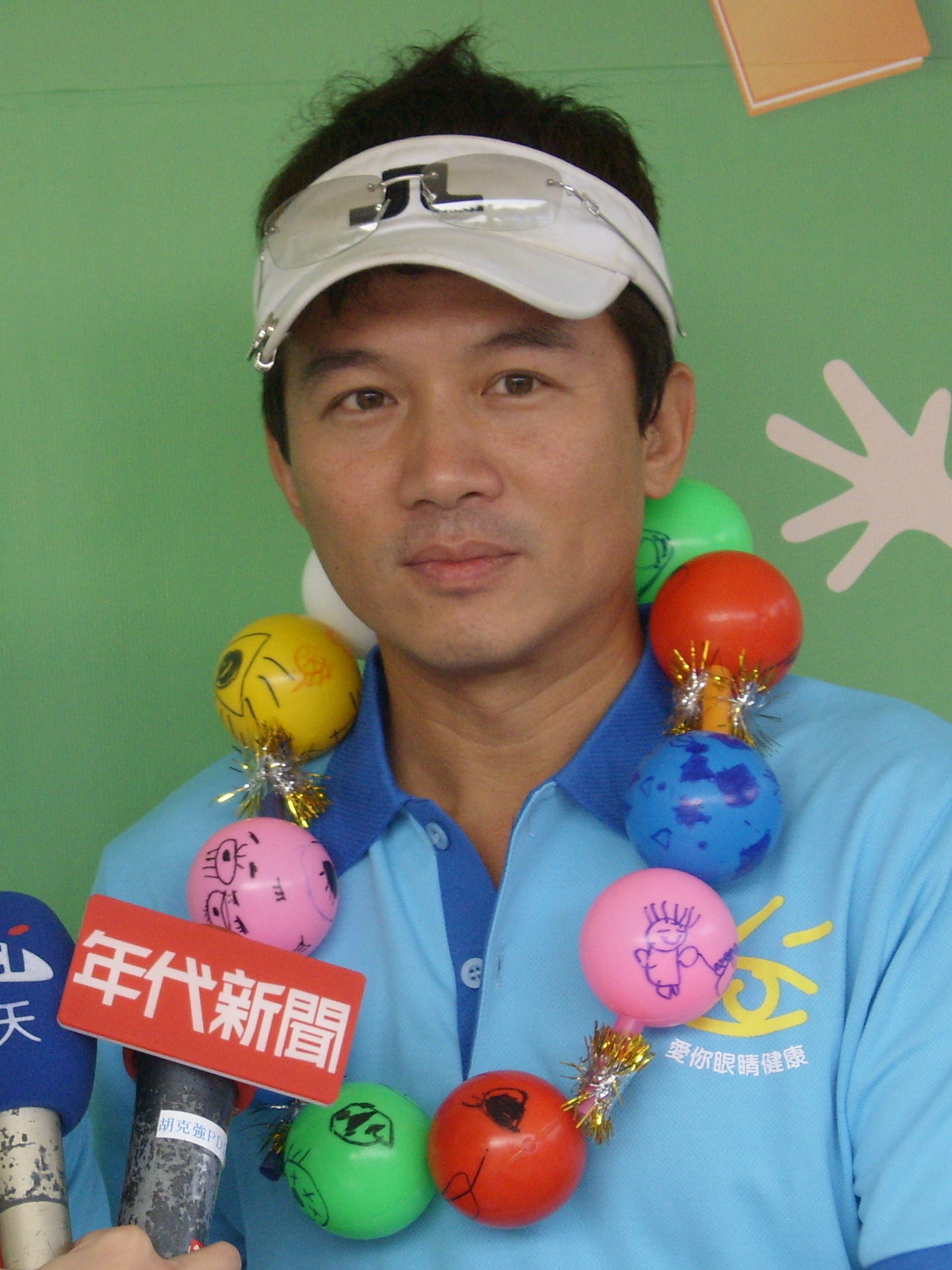 A Famous Taiwanese entertainer Sun Peng at 2007 Alcon Taiwan Hiking.